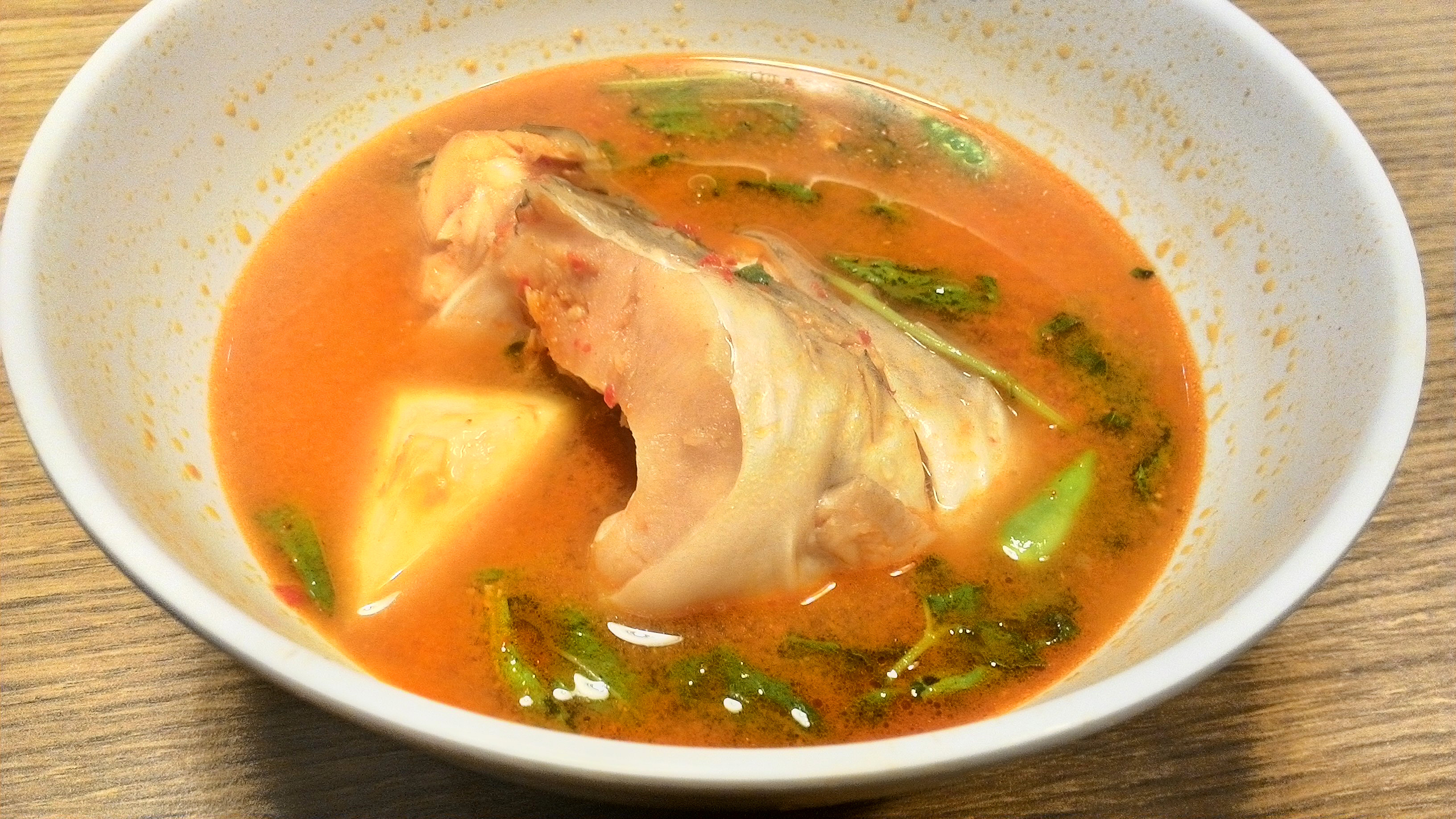 Pindang ikan patin (Pangasius fish) cooked in pindang sweet, spicy and sour soup. Specialty of Palembang, South Sumatra, Indonesia. Food Colony foodcourt, Atrium Senen, Central Jakarta.